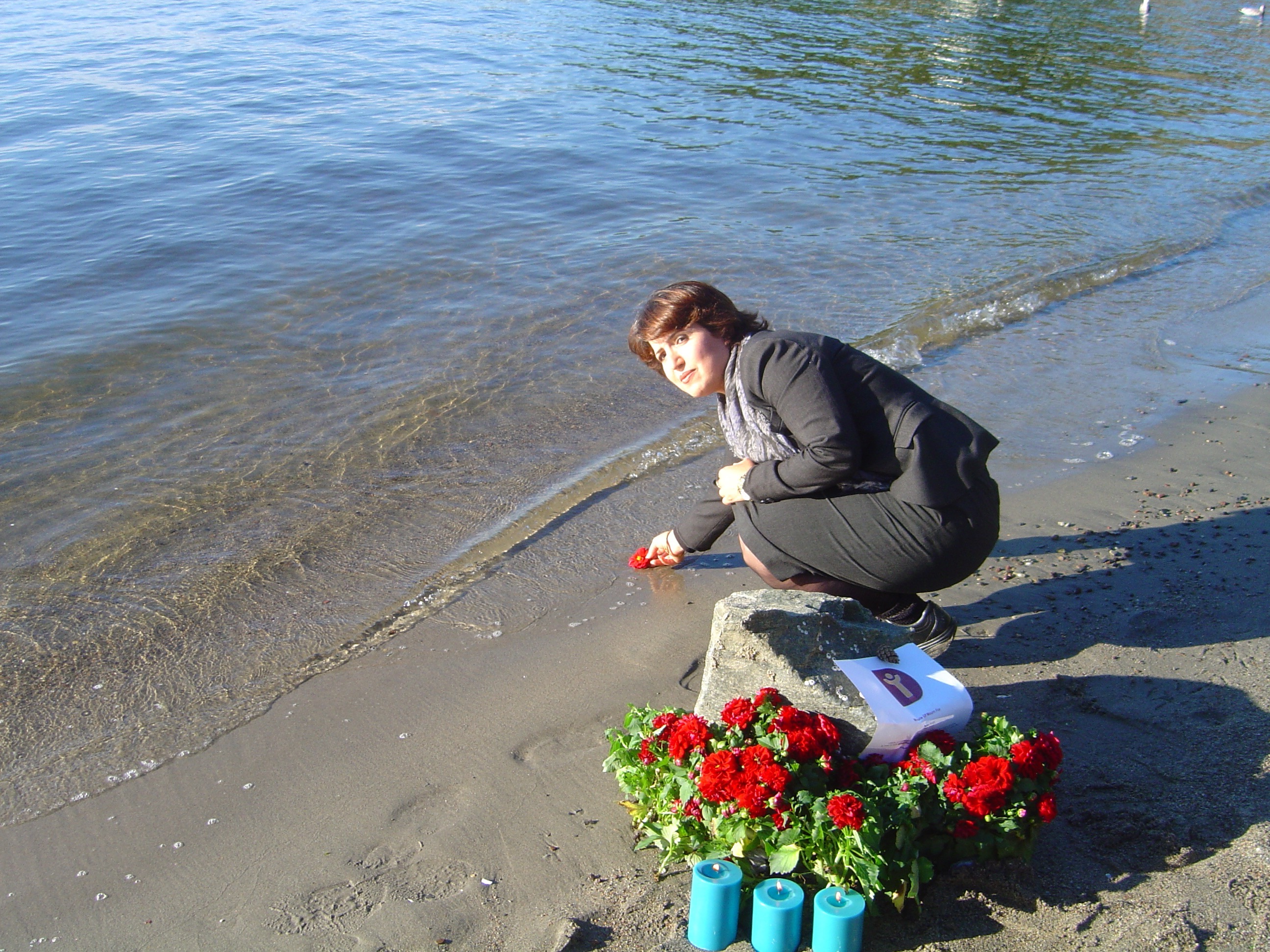 Dr Widad Akreyi during beach event entitled Moments of Mourn For Alan Kurdi And Others, Defend International September 2015